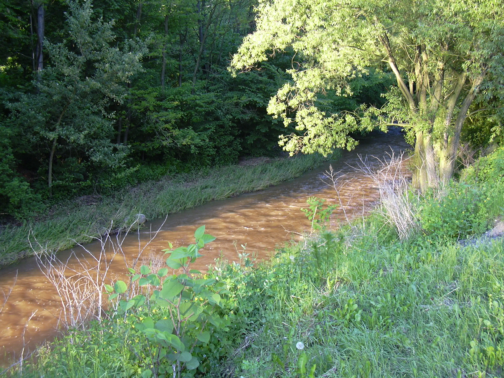 Blšanka river at Měcholupy, Czech Republic. The red-brown color is the result of high suspended sediment concentration.